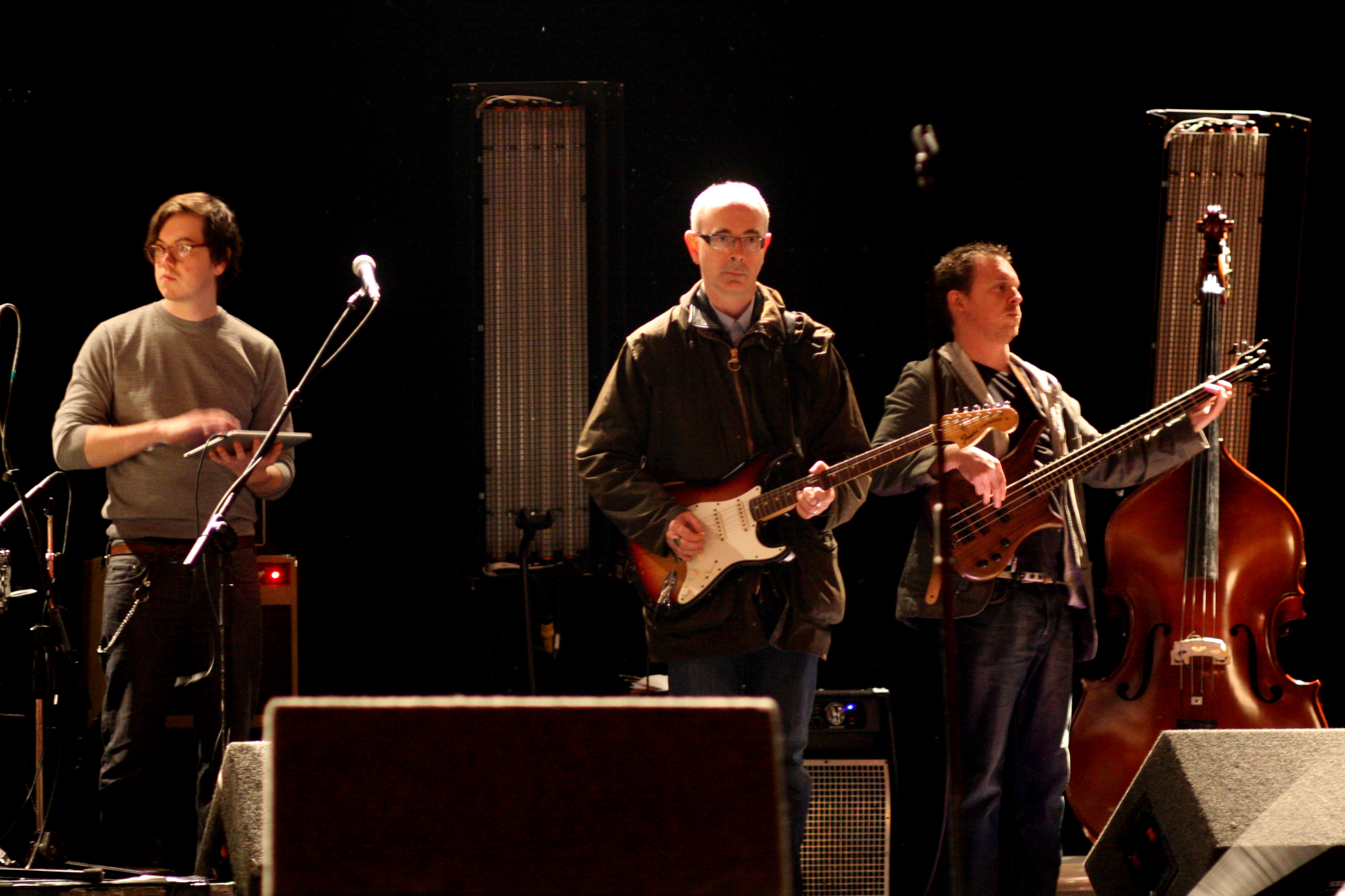 Jolyon Thomas (laptop), Dik Evans (electric guitar), and Dave Mooney (bass guitar) performing at Gavin Friday's performance at the Olympia in Dublin, Ireland, 29-11-2011